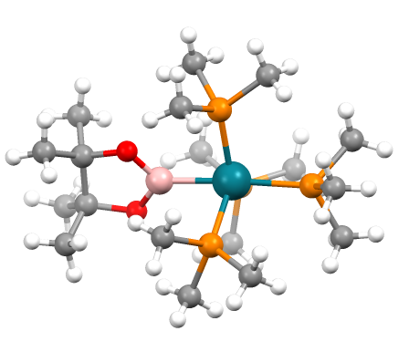 Structure of (PMe3)4RhB(pinacolate).